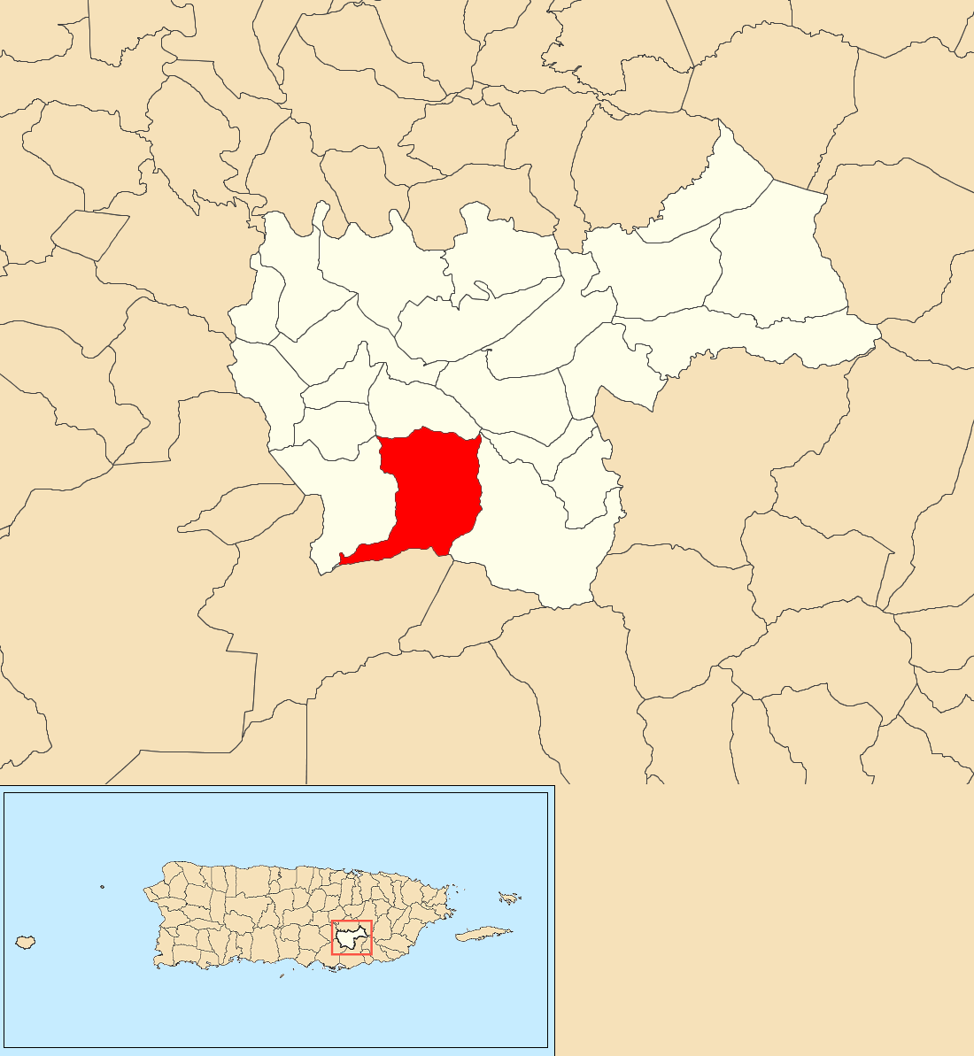 Jájome Bajo, Cayey, Puerto Rico locator map